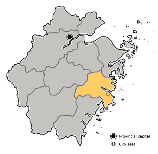 The prefecture-level city of Taizhou is highlighted on this map of Zhejiang province, People's Republic of China.